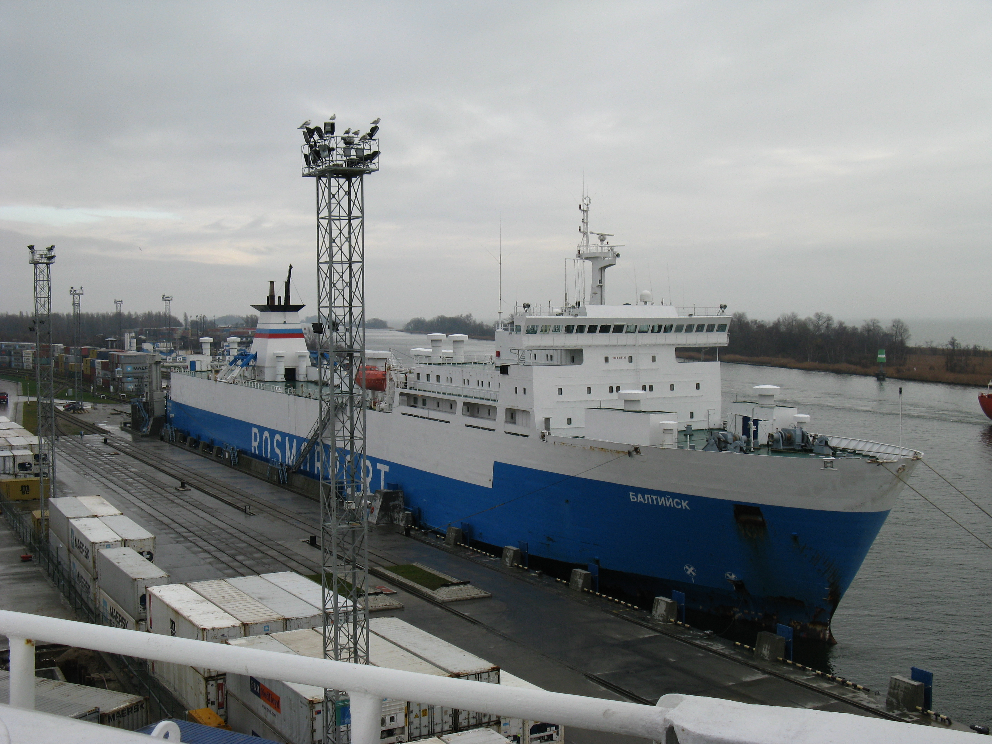 Ferry Baltiysk at pier 83 in Port of Baltiysk 21 November 2010